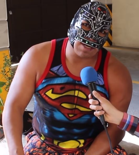 Mexican luchador Mr. Niebla giving an interview in 2015 (screenshot from video footage).